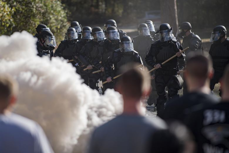 Members of Georgia State Patrol’s Mobile Field Force march toward a group of simulated rioters while a smoke grenade burns, Nov. 16, 2016, at Moody Air Force Base, Ga., during riot training. Between the two days of training, approximately 45 GSP officers participated in the training.